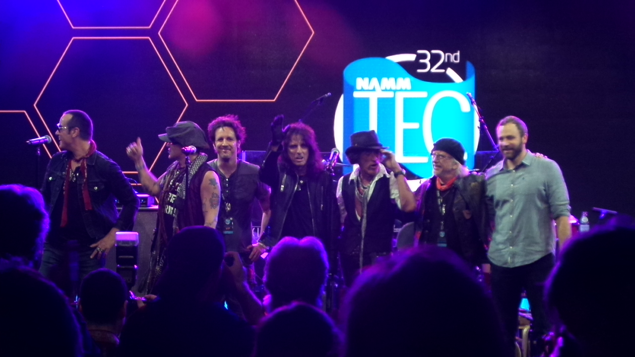 Hollywood Vampires perform at TEC Awards at NAMM in 2017. Robert Deleo, Johnny Depp, Glen Sobel, Alice Cooper, Joe Perry, Brad Whitford and Colin Douglas.